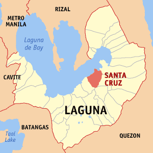 Locator map of Santa Cruz in Laguna, Philippines.